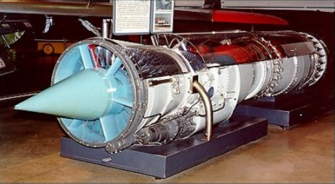 A Pratt & Whitney J57 engine at the National Museum of the U.S. Air Force, Dayton, Ohio (USA).